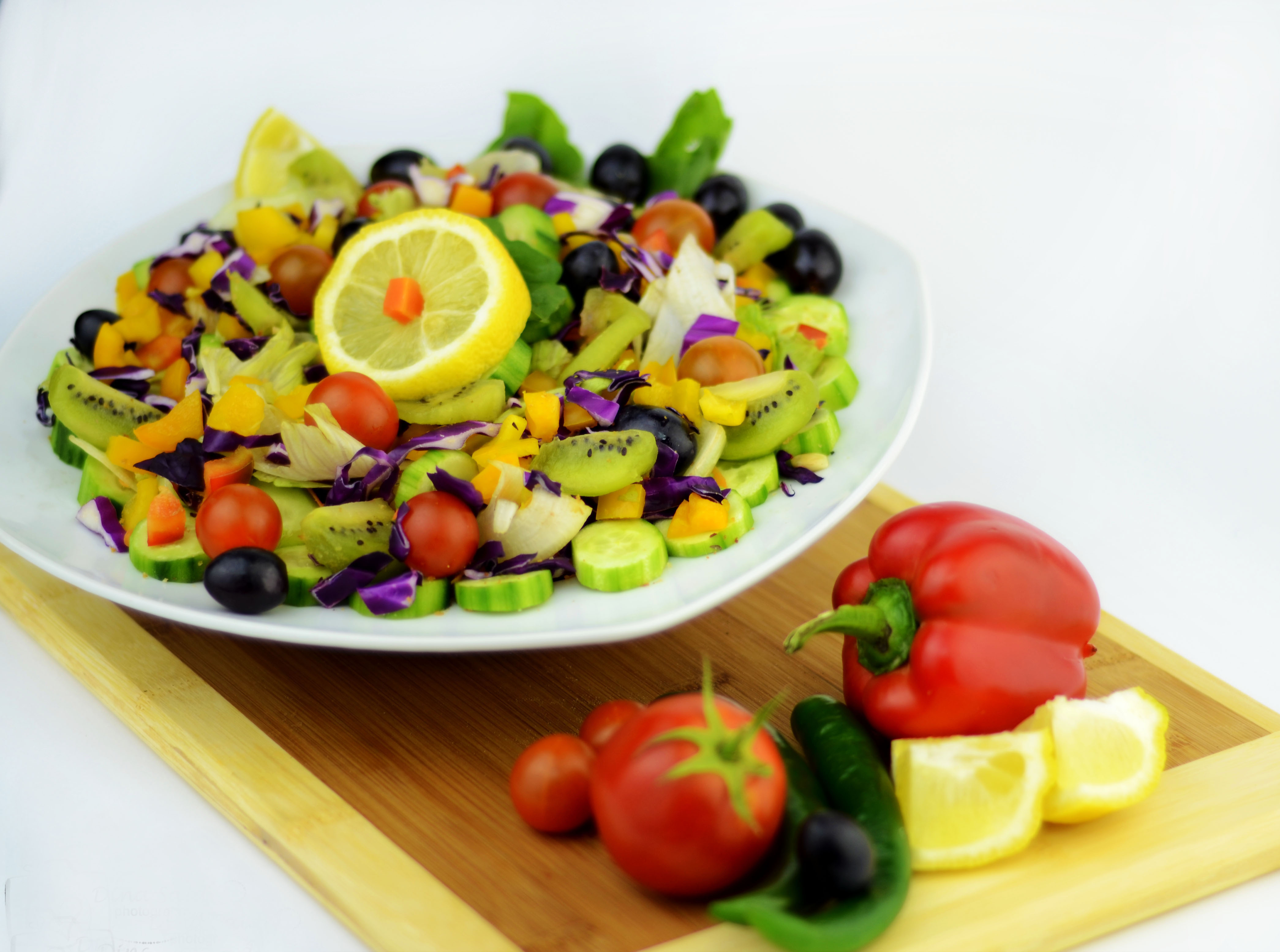 Egyptian green salad This is an image of food from Egypt